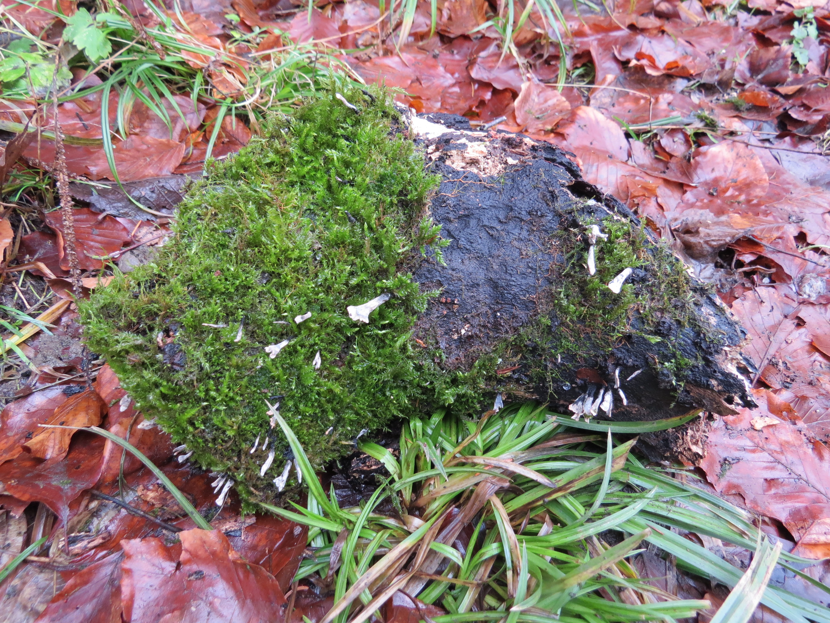 Xylaria hypoxylon (candlestick fungus) and moss at Weißenburggegend in Frankenfels, Austria